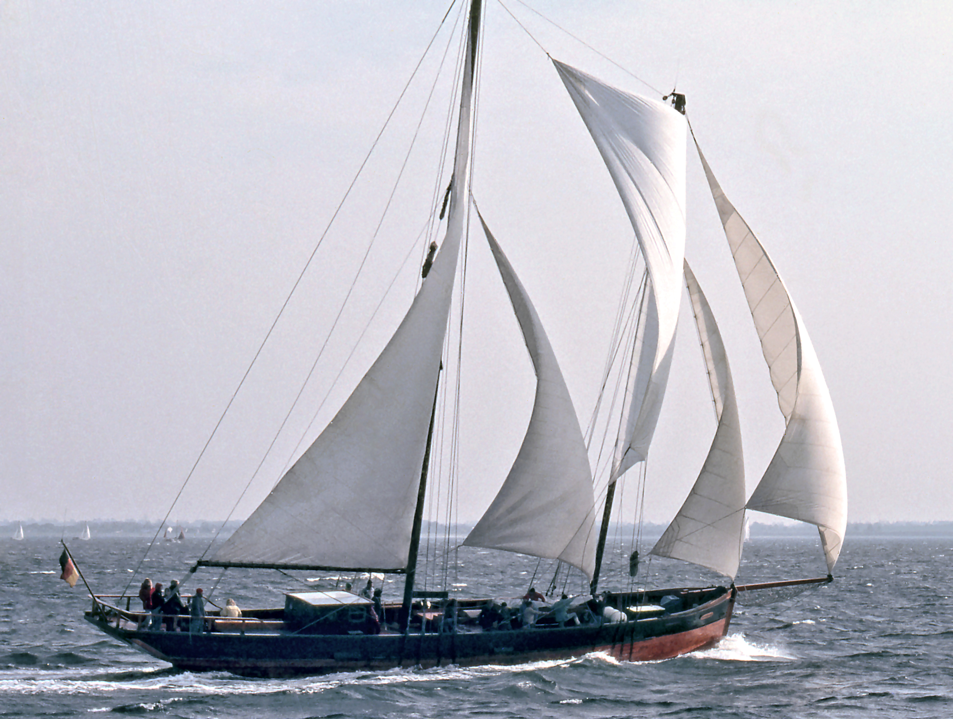 staysail schooner ethel of brixham, firth of kiel 1987, edited by Hinnerk R